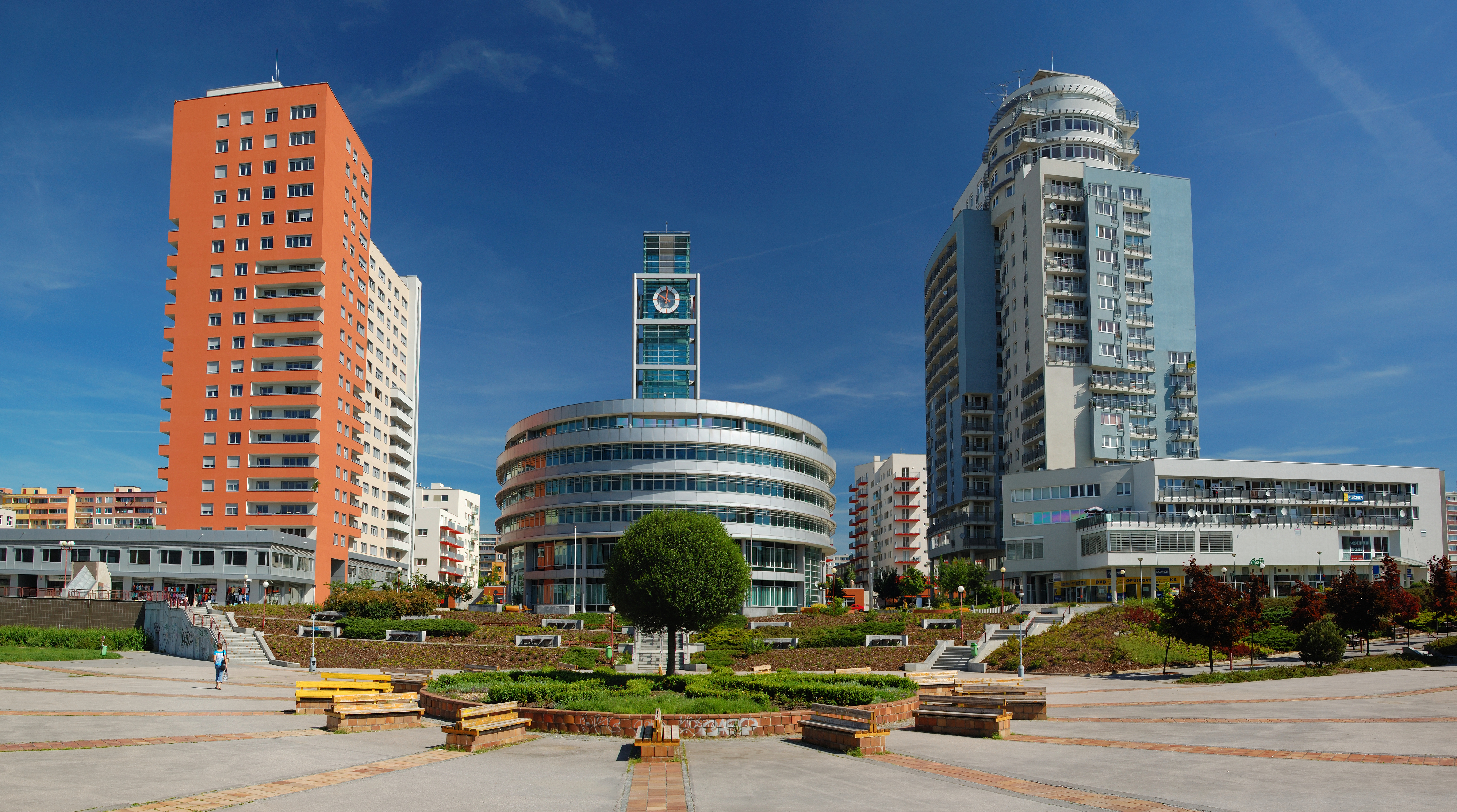 Sluneční náměstí (Sun Square) in Prague 13. The building in the middle is the town hall of Prague 13. This image was created with Hugin.